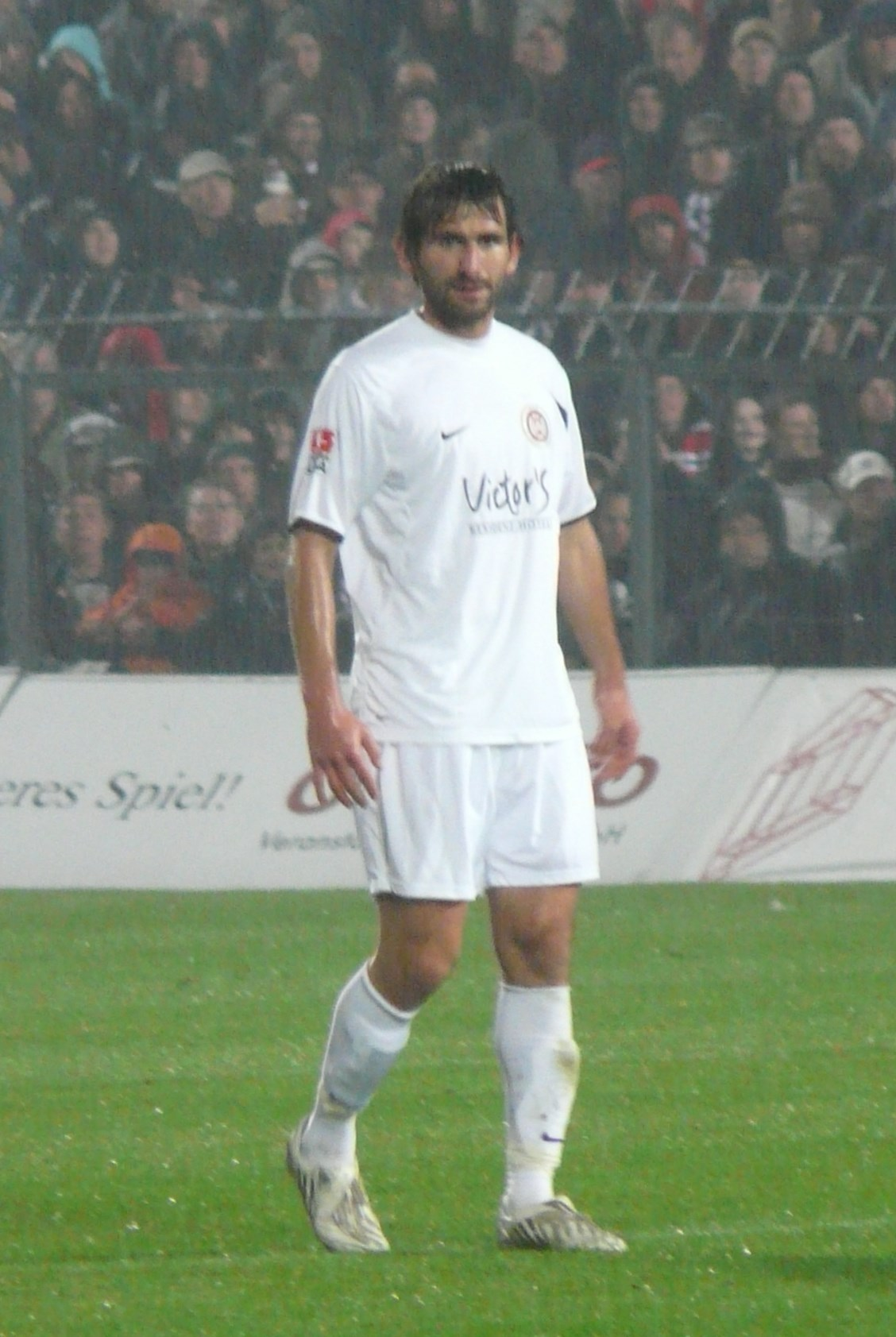 Nikolaos Nakas as Player from SV Wehen Wiesbaden